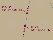 Simulated radar screen cut-out showing two aircraft on head-on courses. There is however no vertical separation conflict, since KLM245 is at FL280 and IBE502 is at FL370. The radar picture also shows that KLM245 has a groundspeed of 380 knots and IBE502 is doing 470 knots. Screenshot cut-out made by myself (FW) using Vic Day's air traffic control simulation program ATC Interactive. Vic Day stated that screenshots made by users are not copyrighted.